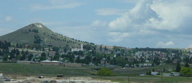 Butte, Montana - Alternate view